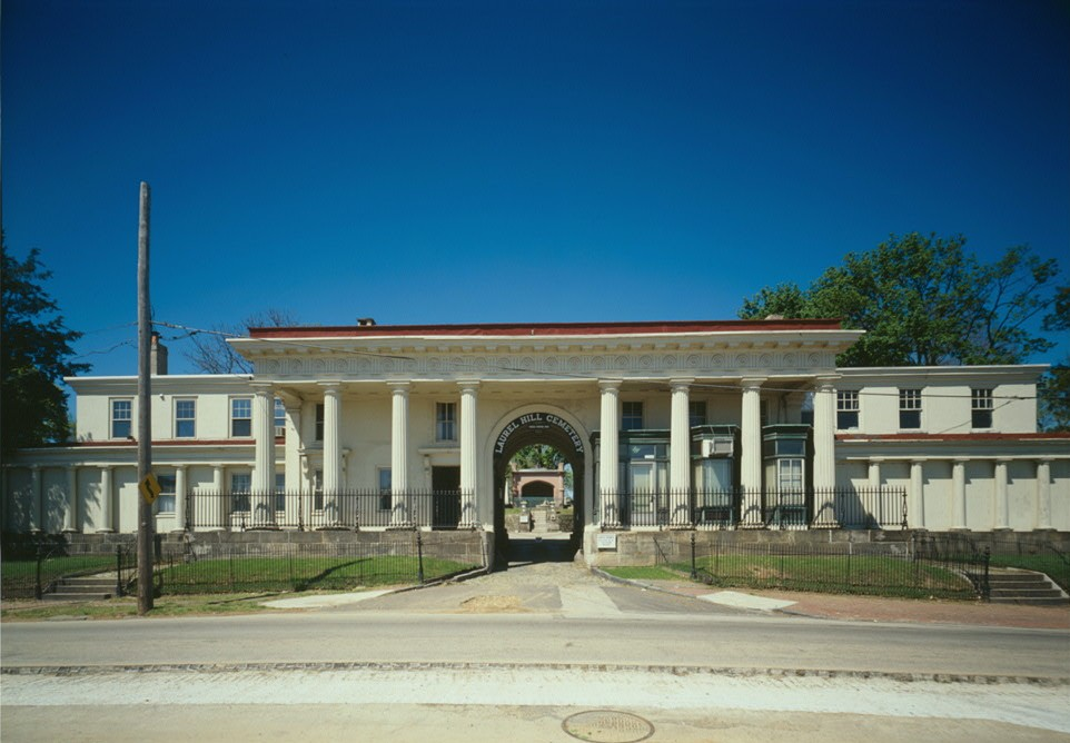 Laurel Hill Cemetery Gatehouse, 3822 Ridge Avenue, Philadelphia, Pennsylvania (1835), John Notman, architect.